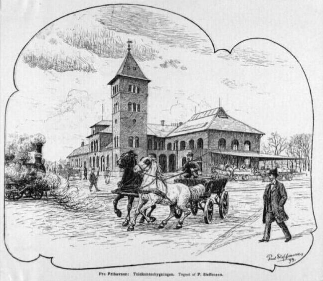 The customs warehouse and clearing house in the Free Port of Copenhagen, erected 1891-94 from drawings by Erik Schiødte (1849-1909)